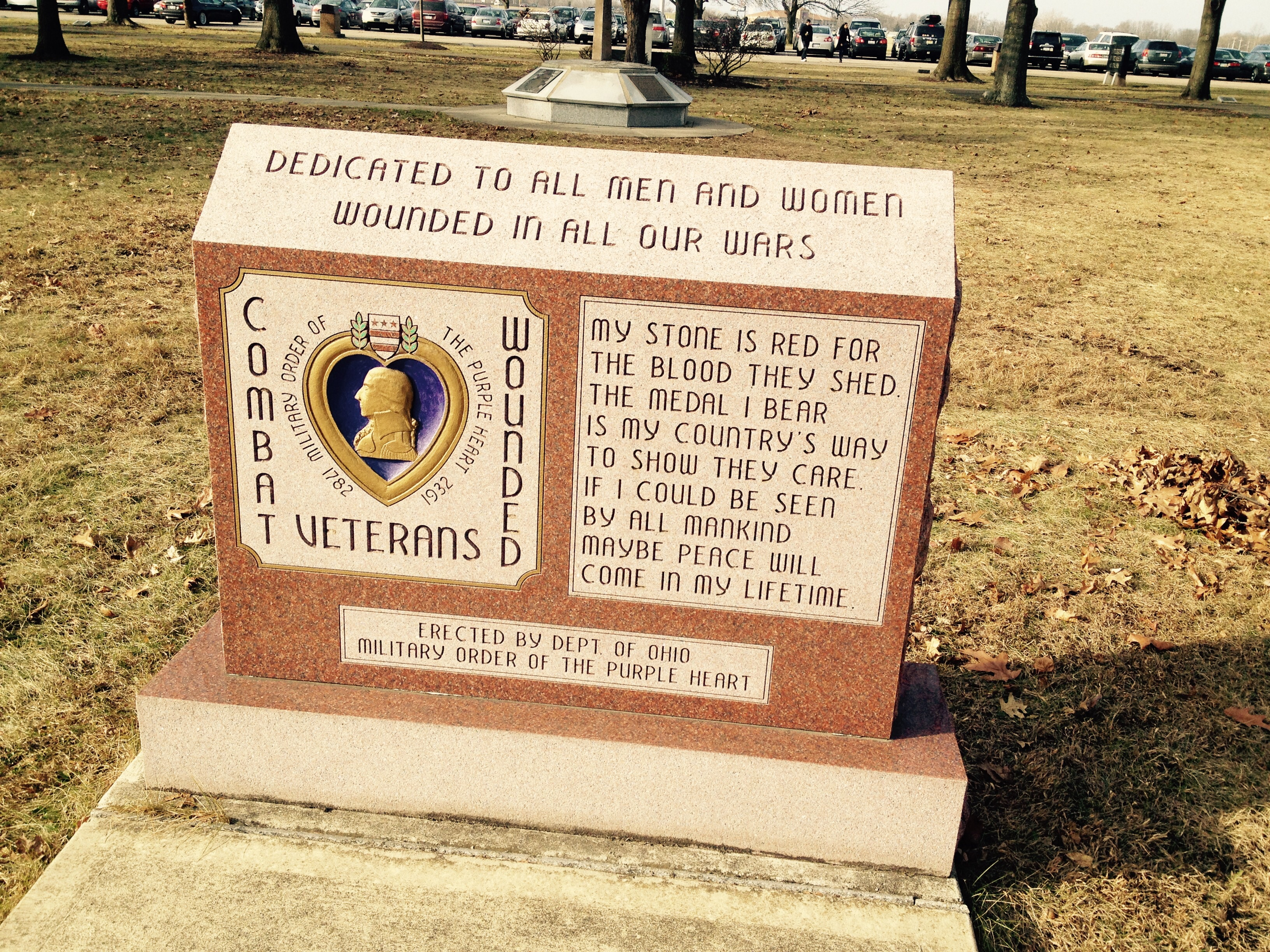 Military Order of the Purple Heart memorial at the Air Force museum in Dayton, OH